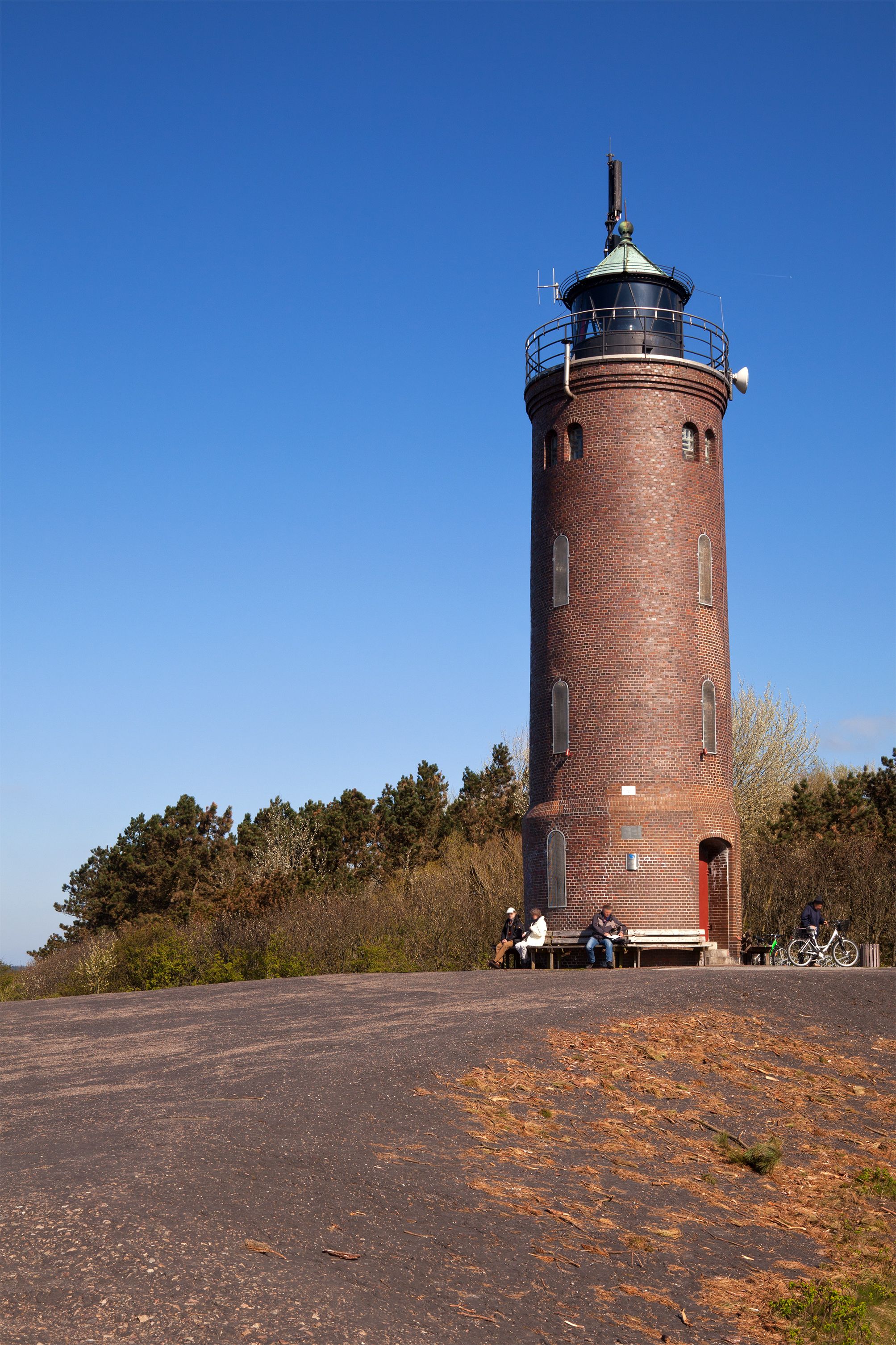 Sankt Peter-Böhl, lighthouse